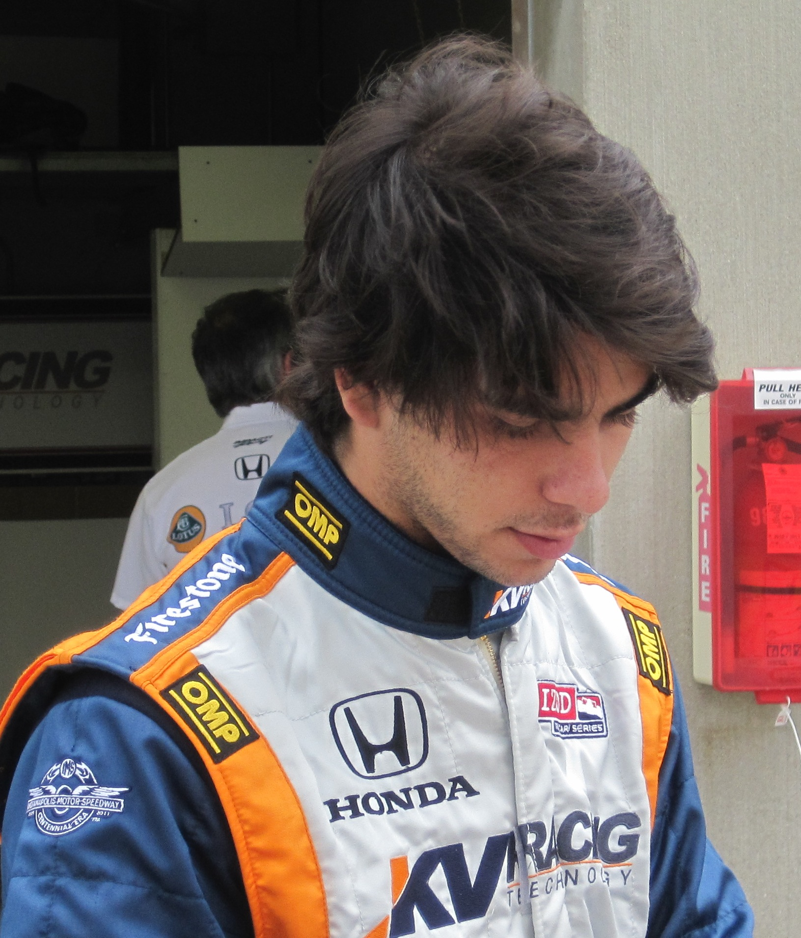 Mario Moraes at the Indianapolis Motor Speedway for day 7 of practice (Fast Friday) for the 2010 Indianapolis 500 on Friday, May 21, 2010.